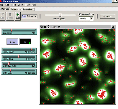 Netlogo programing enviroment.